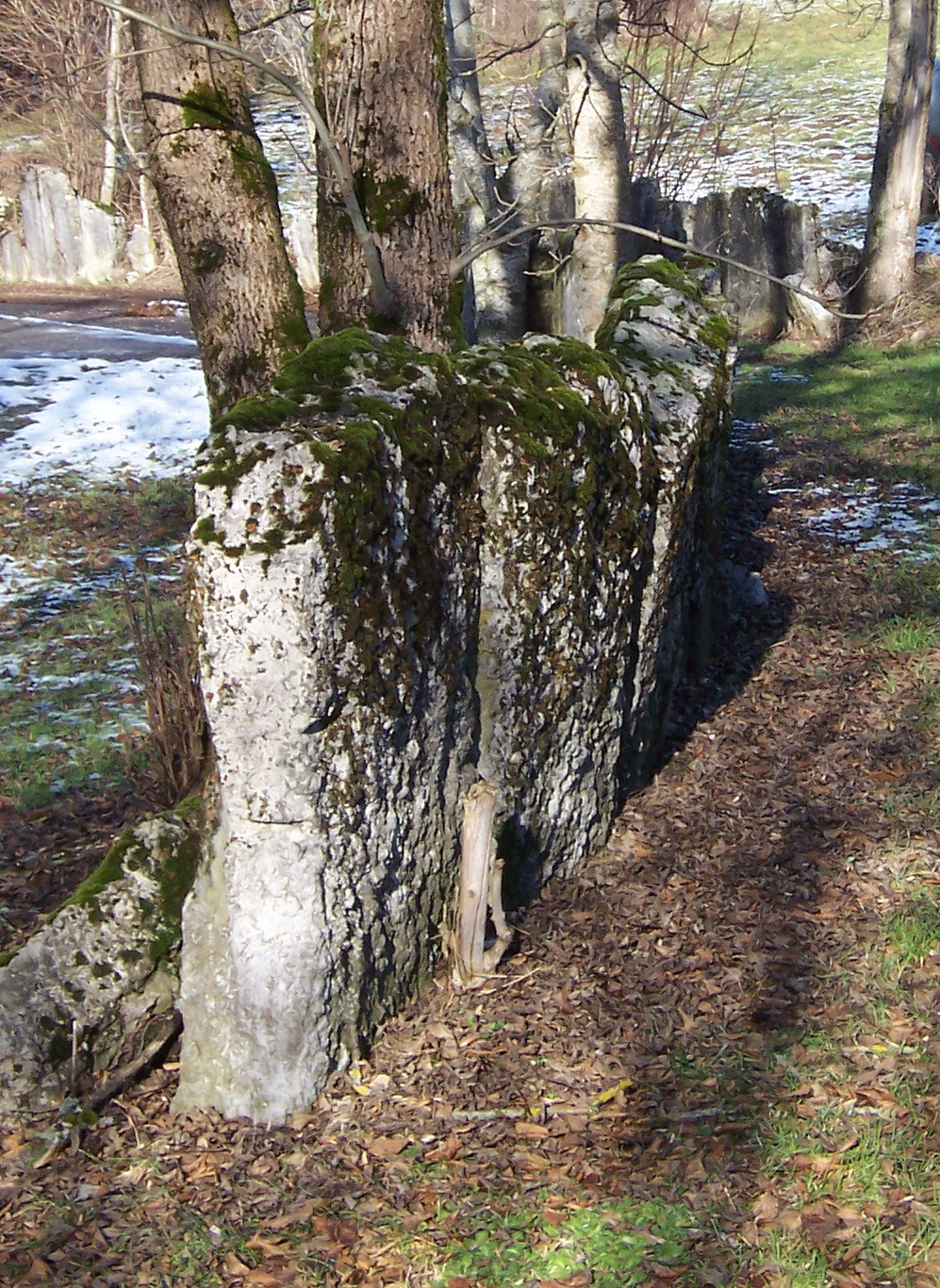 Limestone standing stones used as fences along pathways in the village of Jarsy (Savoie, France)